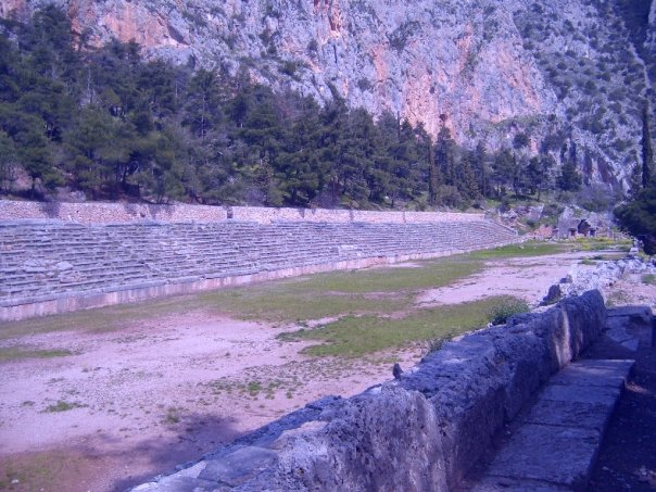 The stadium in Delphi, Greece.